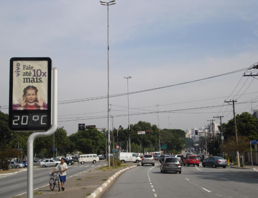 avenida Braz Leme (avenue) - Santana - Sao Paulo, SP - Brazil